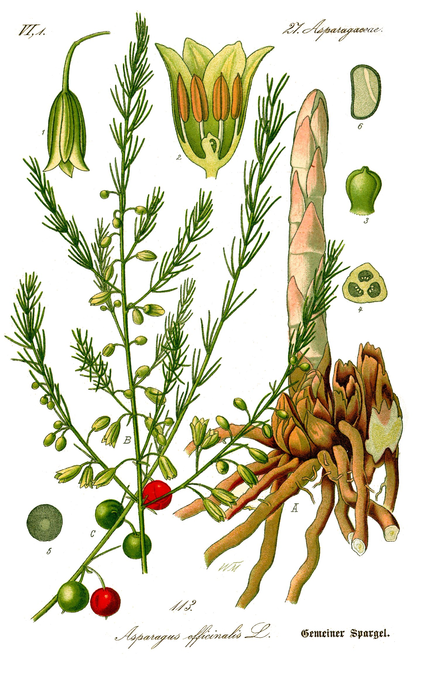 Clean version of Image:Illustration_Asparagus_officinalis0.jpg Name Asparagus officinalis Family Asparagaceae